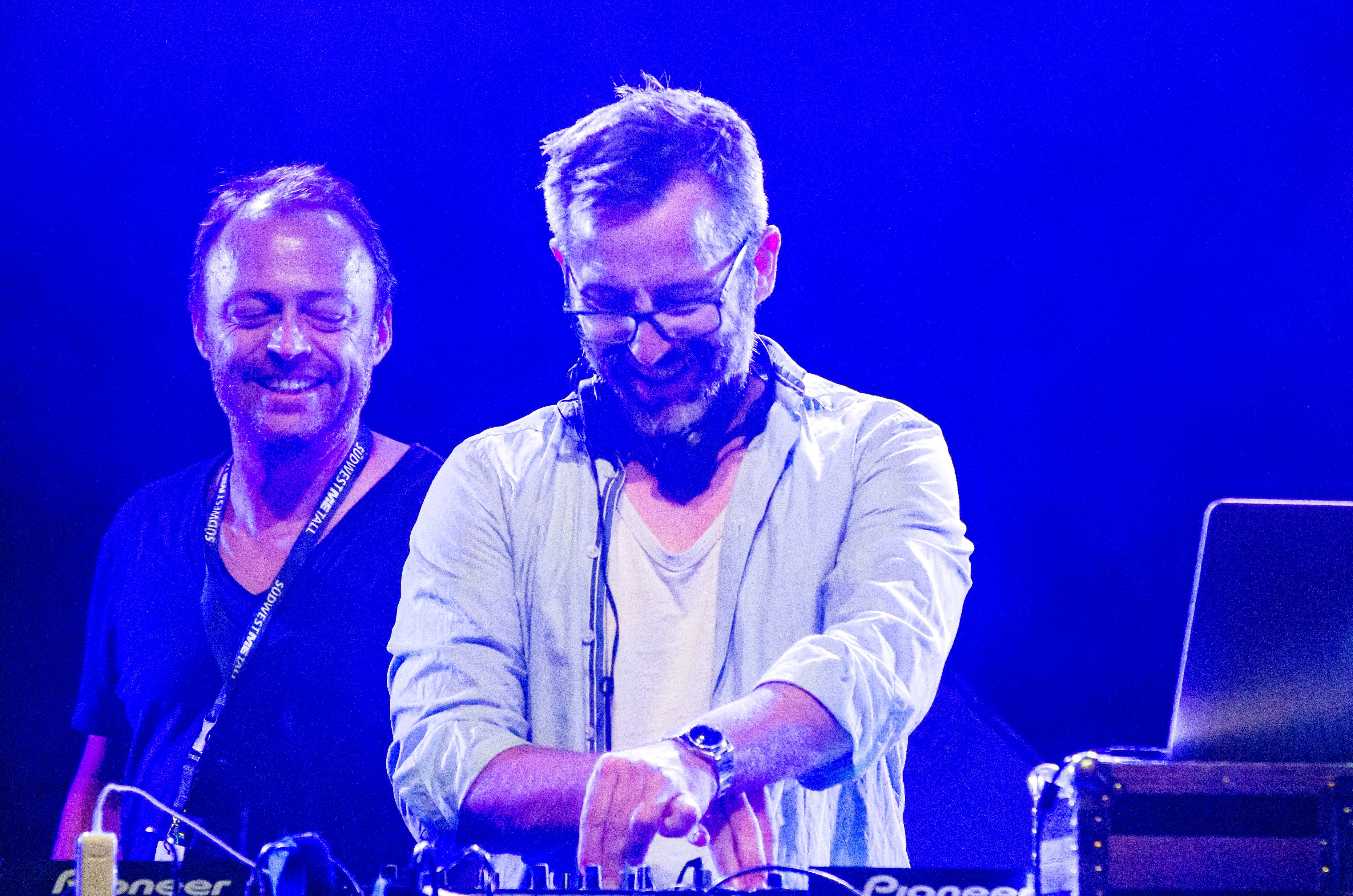 Bilder vom ZMF 2015 Root Down Special, Alexander Barck (rechts), Rainer Trüby (links), 10. Juli 2015